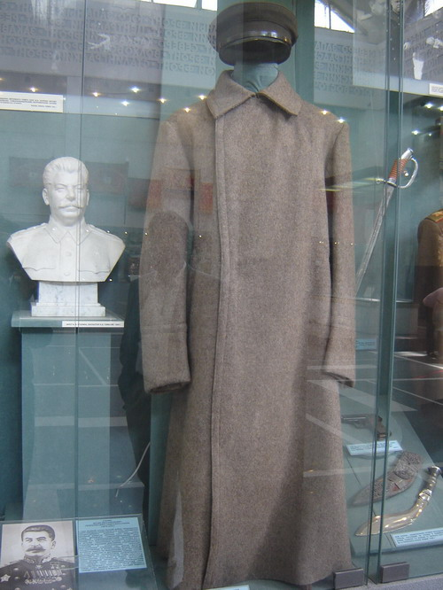 photo taken by the author at central army museum, Novoslobodskaya,Moscow, Russia